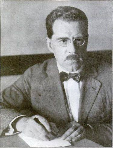 Walter N.Polakov, Student of Industrian Relations.